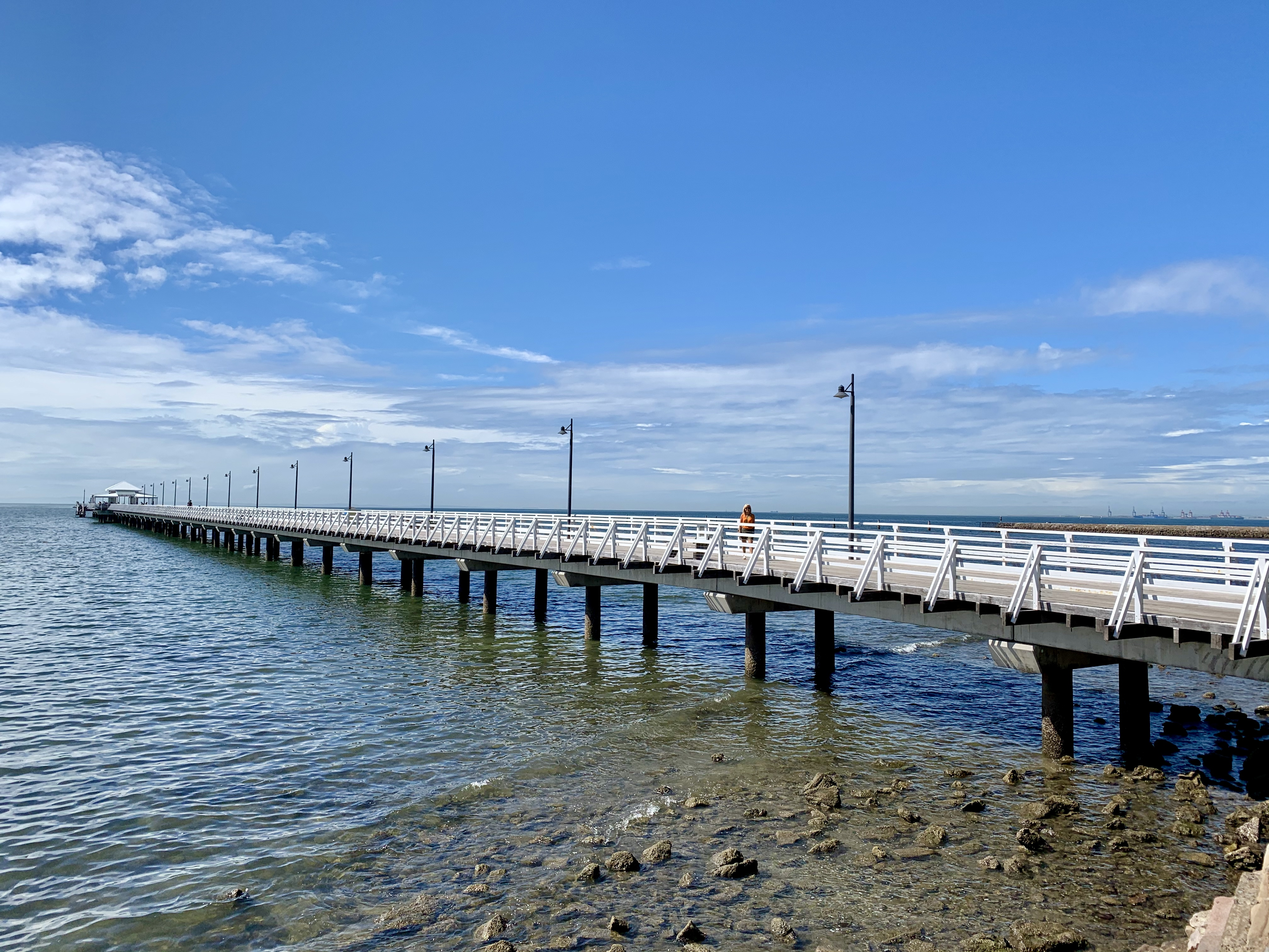 Shorncliffe Pier, Queensland, 2020